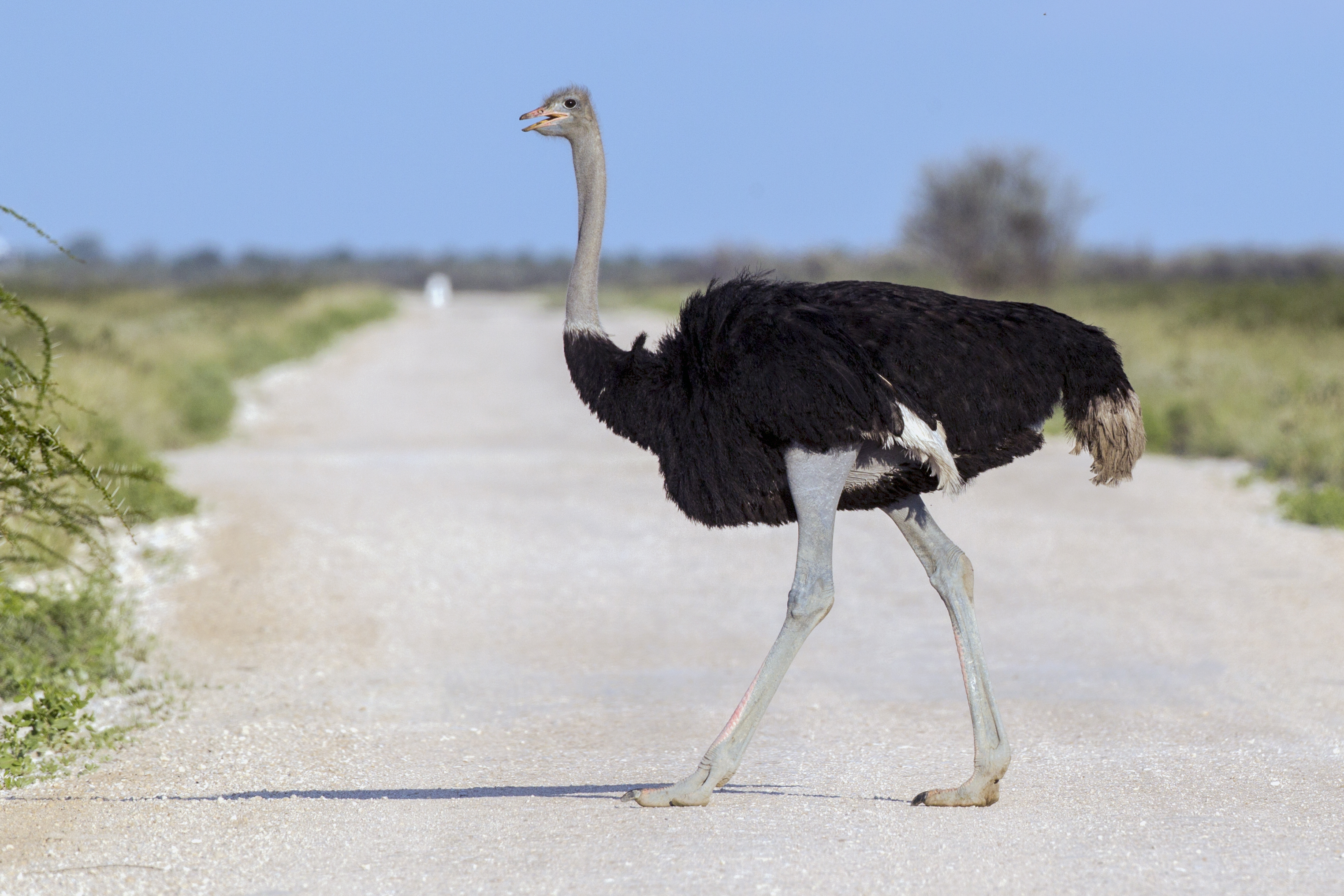 Common ostrich in Etosha National Park, Namibia